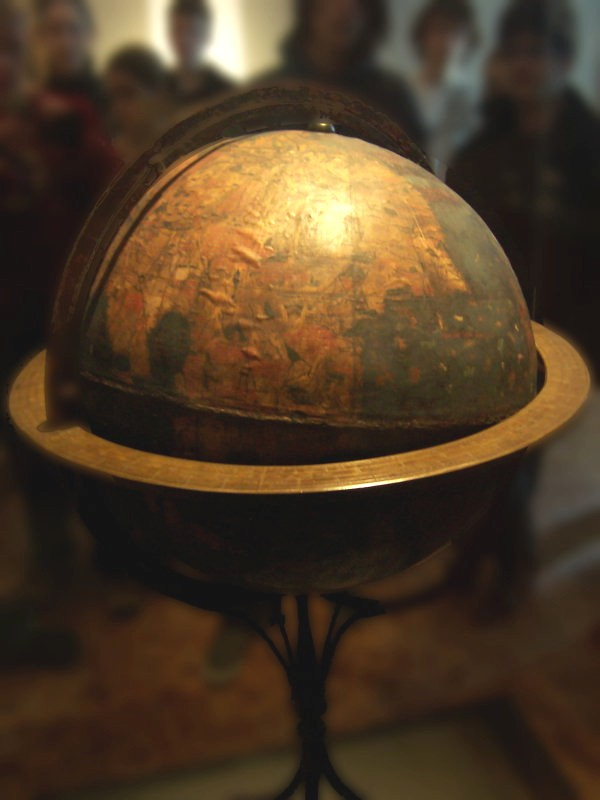 Terrestrial globe named "Erdapfel" produced by Martin Behaim. Considered to be one of the oldest globes ever made.